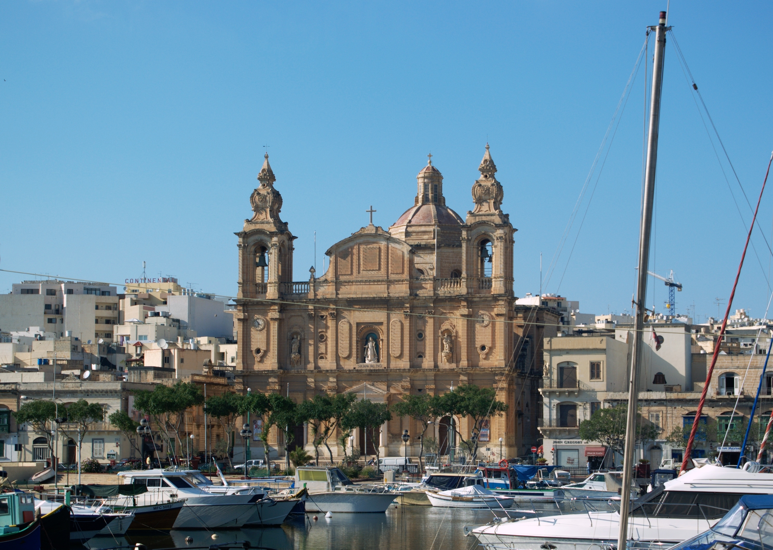 Malta, Msida, St. Joseph's church This media is about Maltese cultural property with inventory number 16.